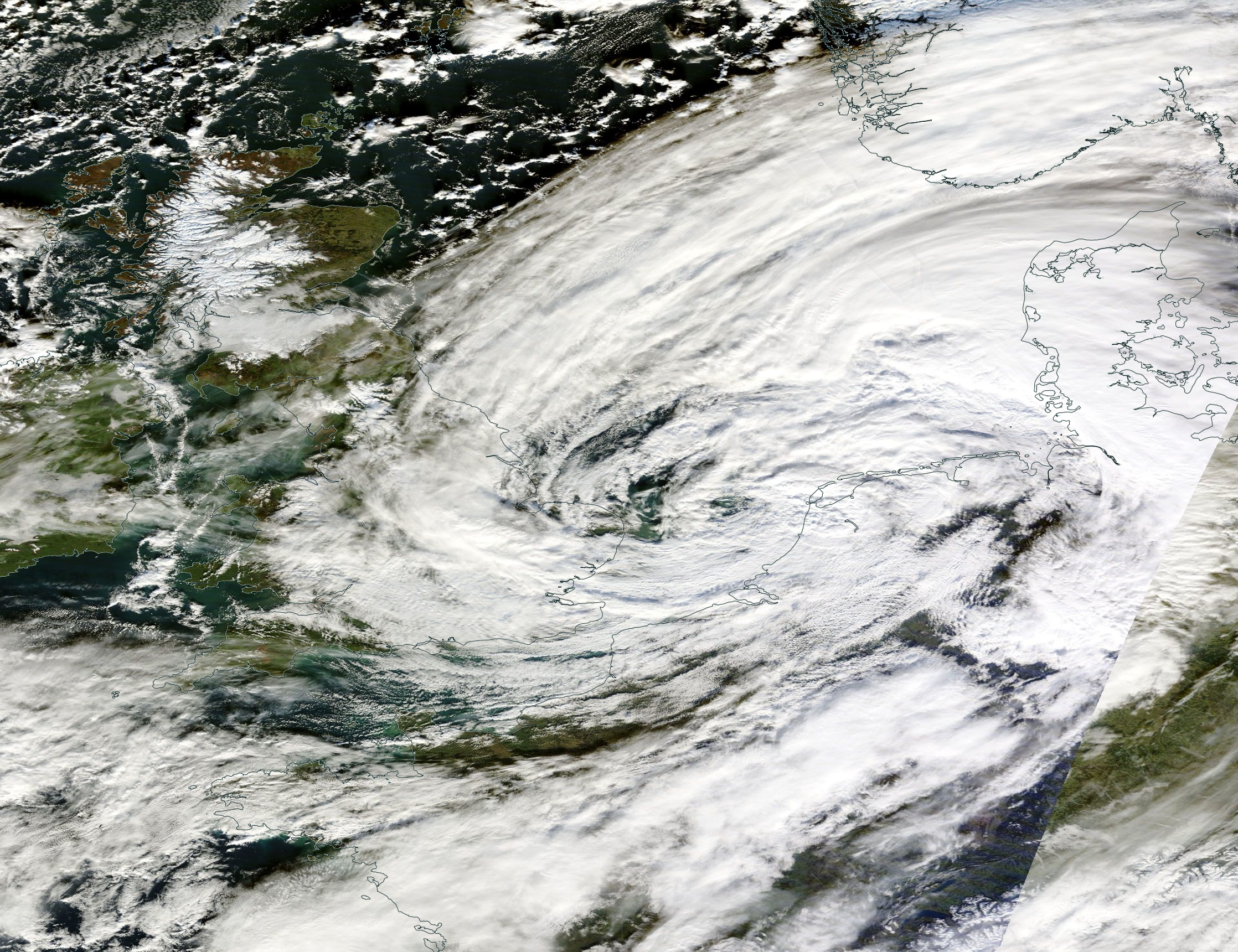 Storm Angus in the North Sea